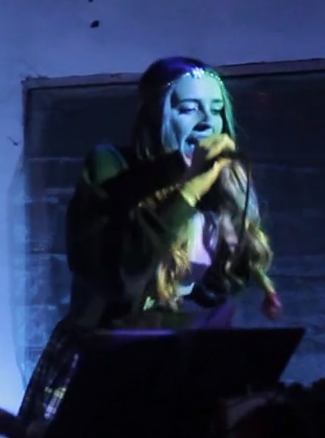 Ashnikko performing in Riga, Latvia in 2014